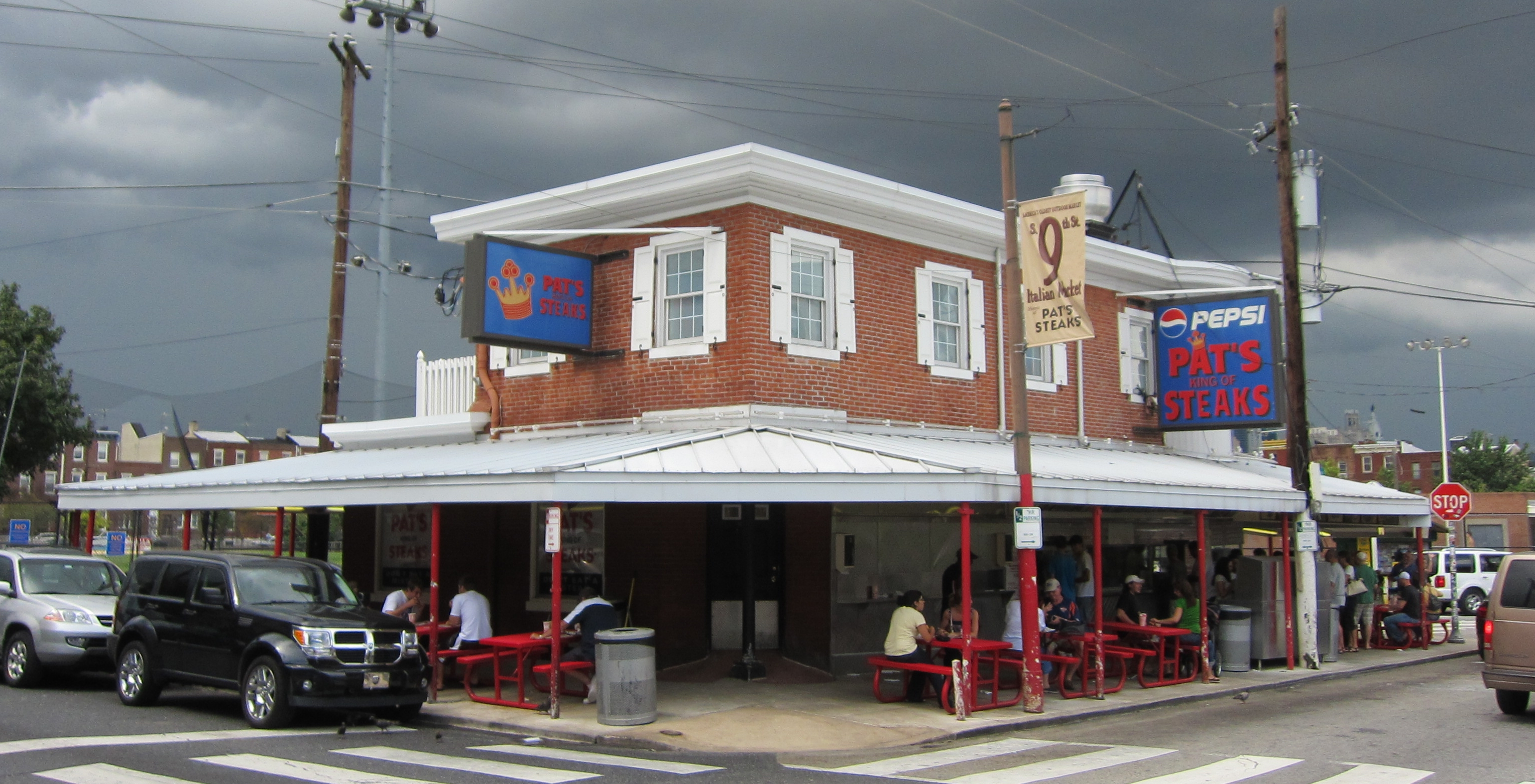 Pat's King of Steaks, 1237 East Passyunk Avenue, Philadelphia, Pennsylvania. Photograph taken at the corner of South 9th Street and Wharton Street.